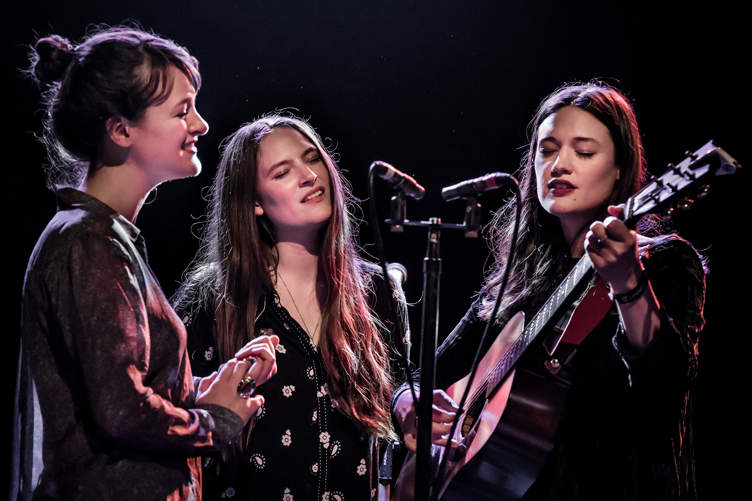 The Staves performing live at The Troubadour in Los Angeles, California, on Wednesday February 22, 2017. Mikaela Davis opened for The Staves.